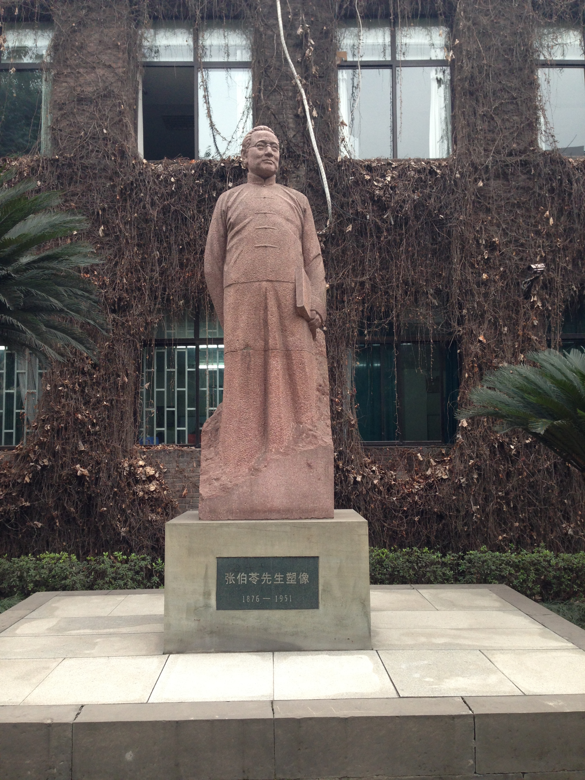 Statue of Zhang Boling, the founder of Nankai.